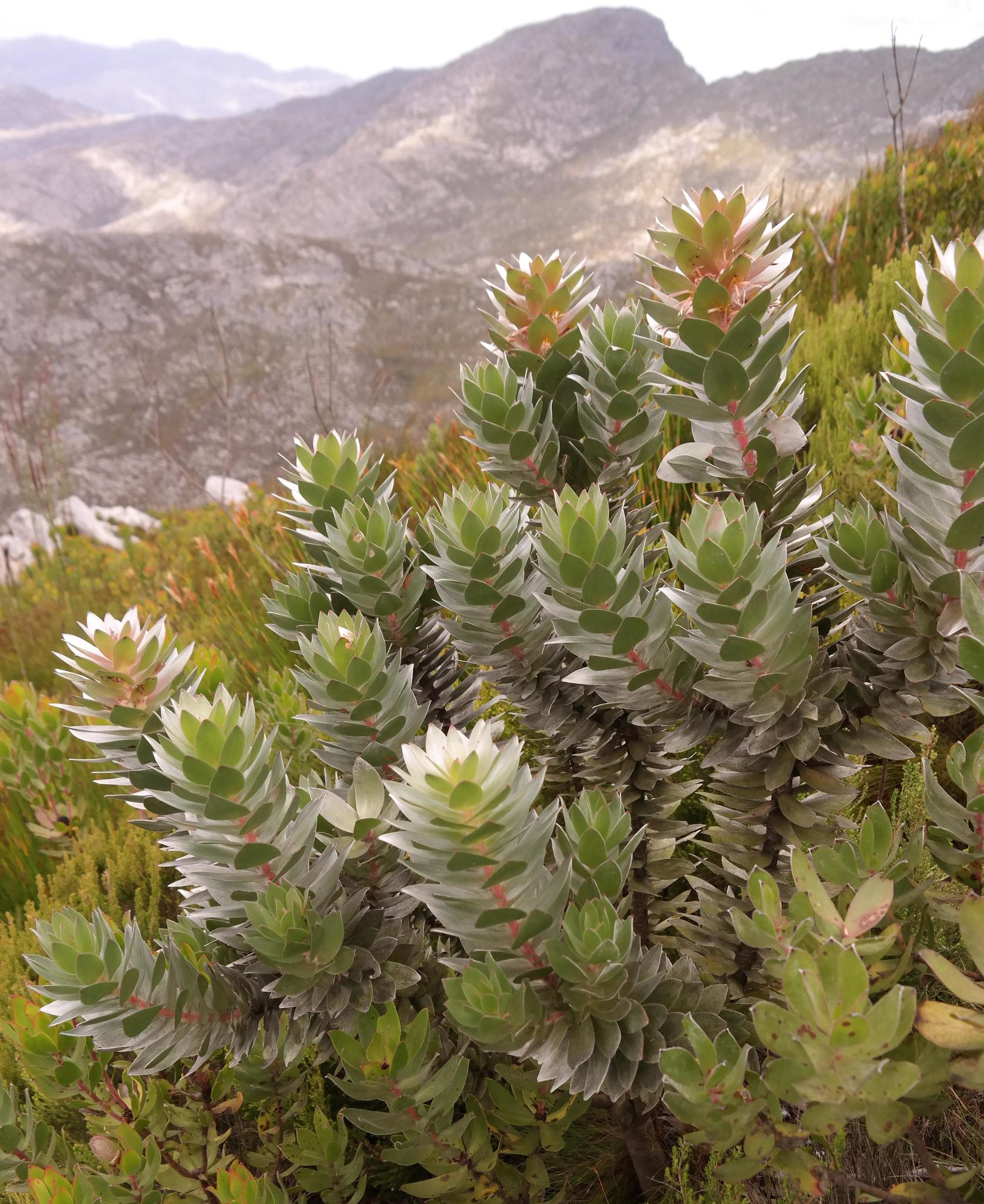 A Kogelberg pagoda, Mimetes arboreus, habit, photographed by Nick Helme, on 16 March 2016 2016, somewhere in the Kogelberg Nature Reserve